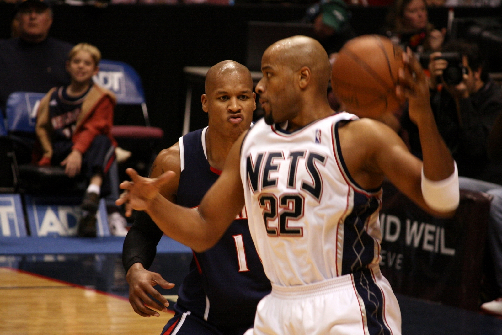 Maurice Evans of the Atlanta Hawks defends Jarvis Hayes of the New Jersey Nets (22).